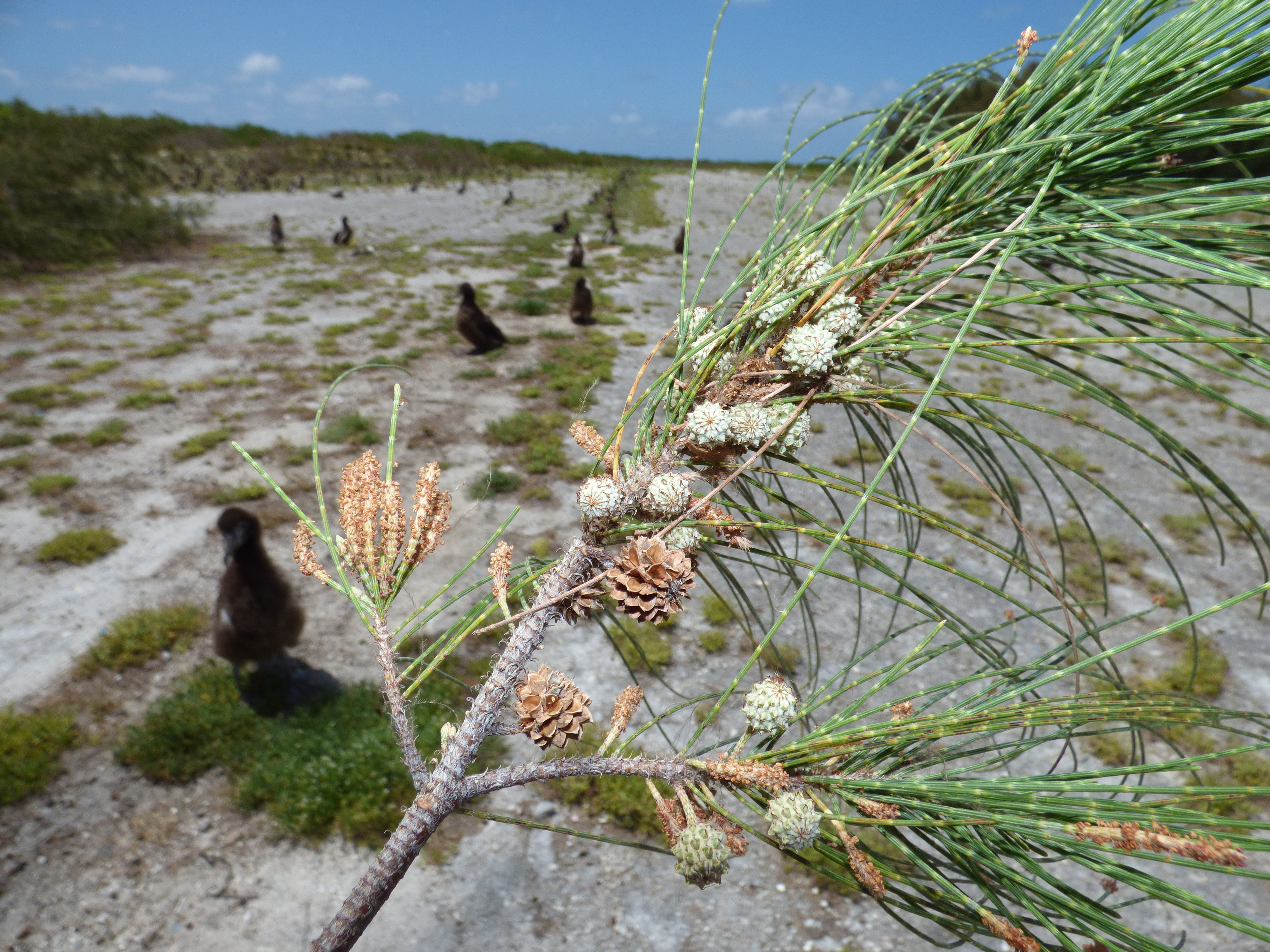 Casuarina equisetifolia (Ironwood) Male and female flowers and cones at Abandoned Runway Near Rusty Bucket Sand Island, Midway Atoll, Hawaii. June 24, 2017 #170624-0907 Image Use Policy